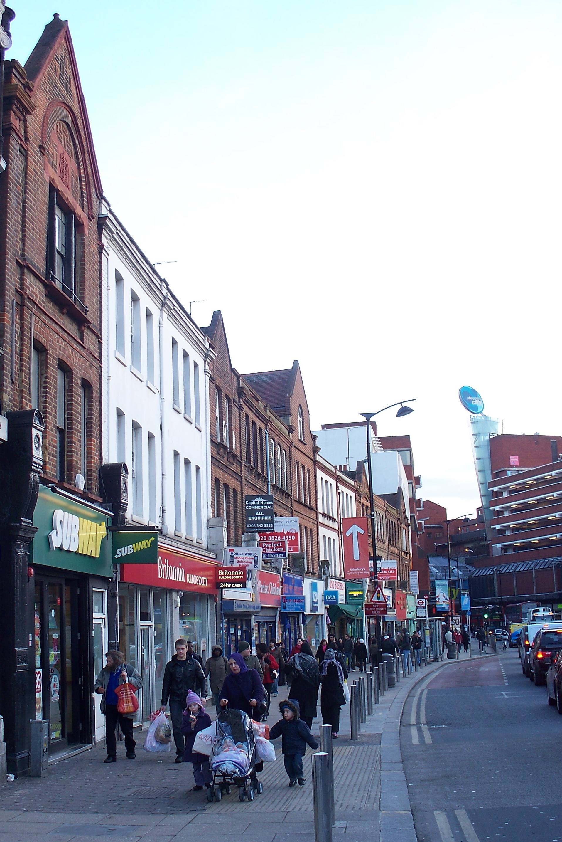 Shops in surviving buildings of Noel Park, Wood Green High Road, London N22, with Shopping City in the background. Photograph taken in a public location in the UK of a building on permanent public display, and exempt from copyright under Section 62 of the Copyright Designs & Patents Act 1988 ("it is not an infringement of copyright to film, photograph, broadcast or make a graphic image of a building, sculpture, models for buildings or work of artistic craftsmanship if that work is permanently situated in a public place or in premises open to the public")